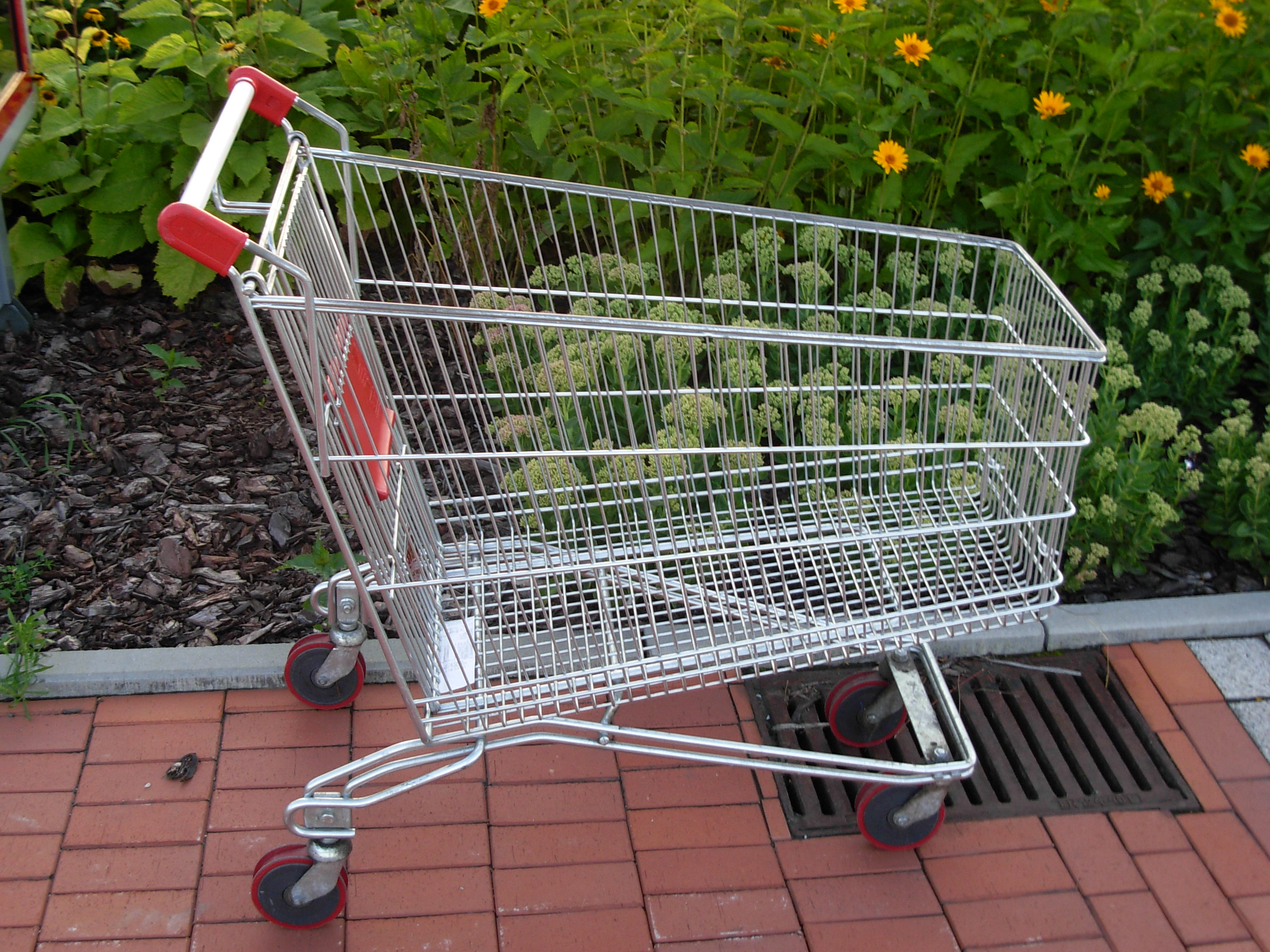 Shopping carts displayed at Silesia City Center